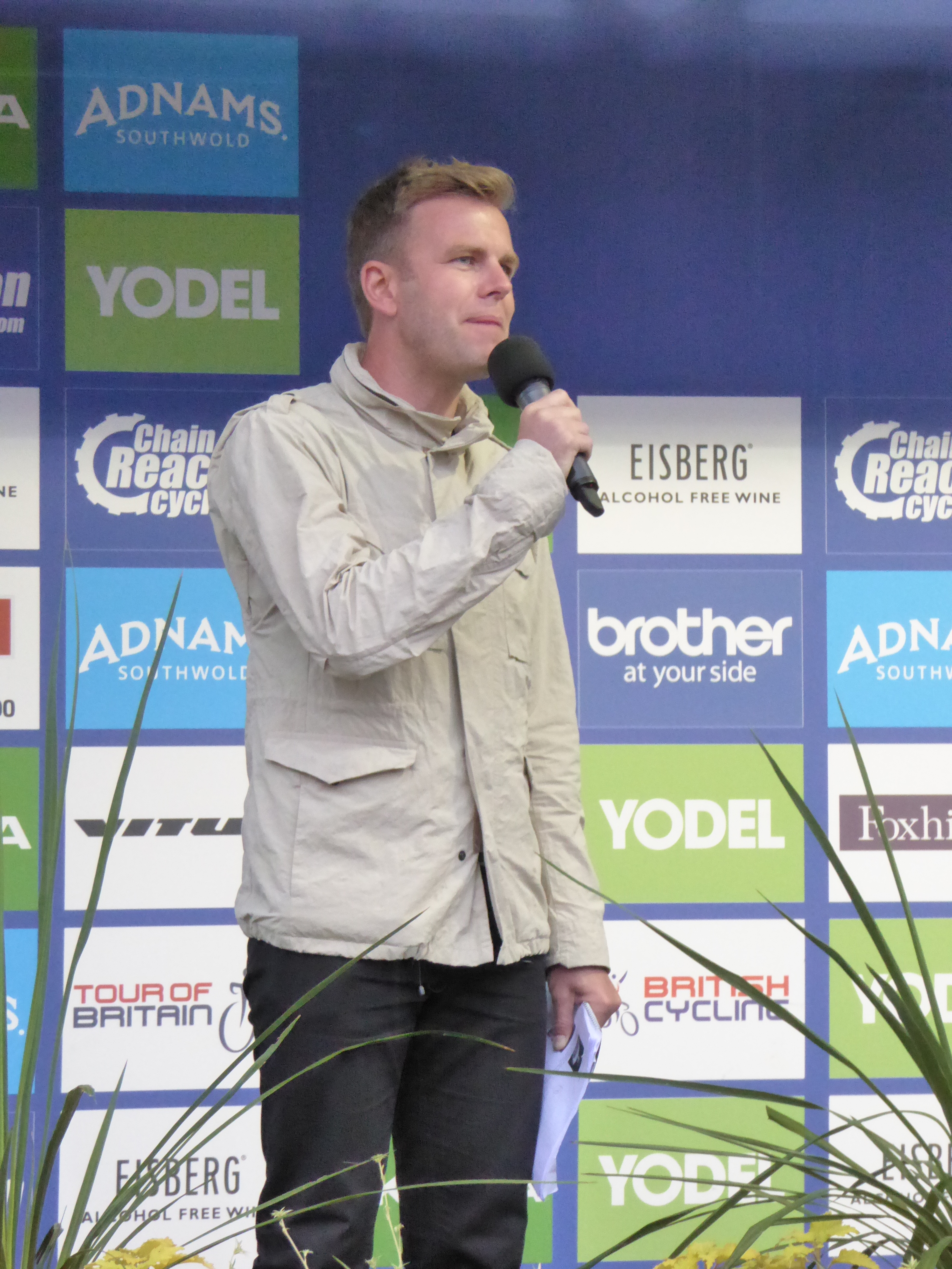 Matt Barbet, pictured at the 2016 Tour of Britain team presentation in Glasgow on 3 September 2016.